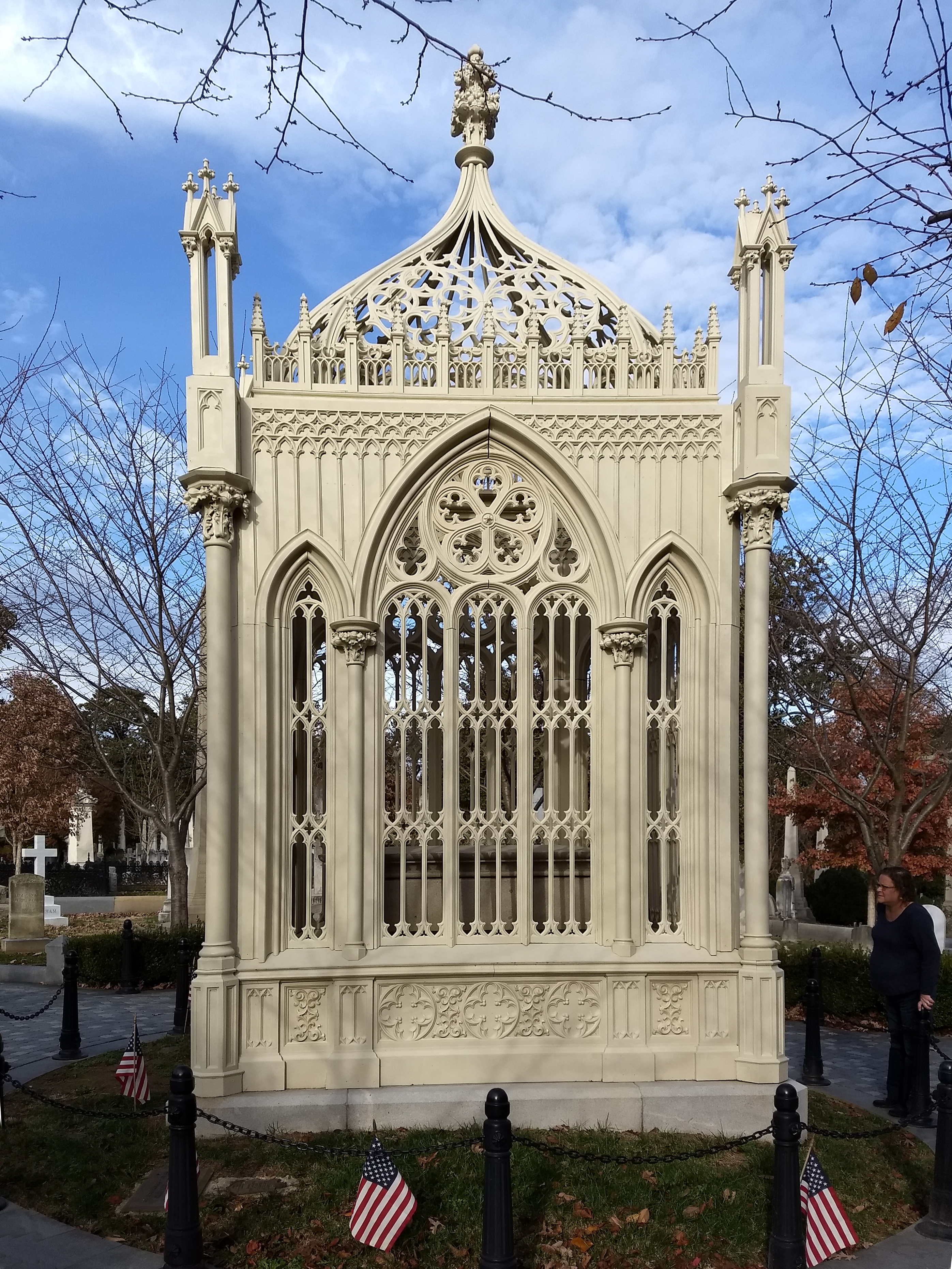 This is an image of the grave site of James Monroe -- the fifth president of the United States -- as of November 26, 2017. It can be found in the President's Circle section of the Hollywood Cemetery in Richmond, Virginia.